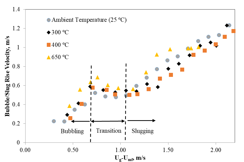 ECVT measures metrics that describe slugging phenomena in a hot fluidized bed